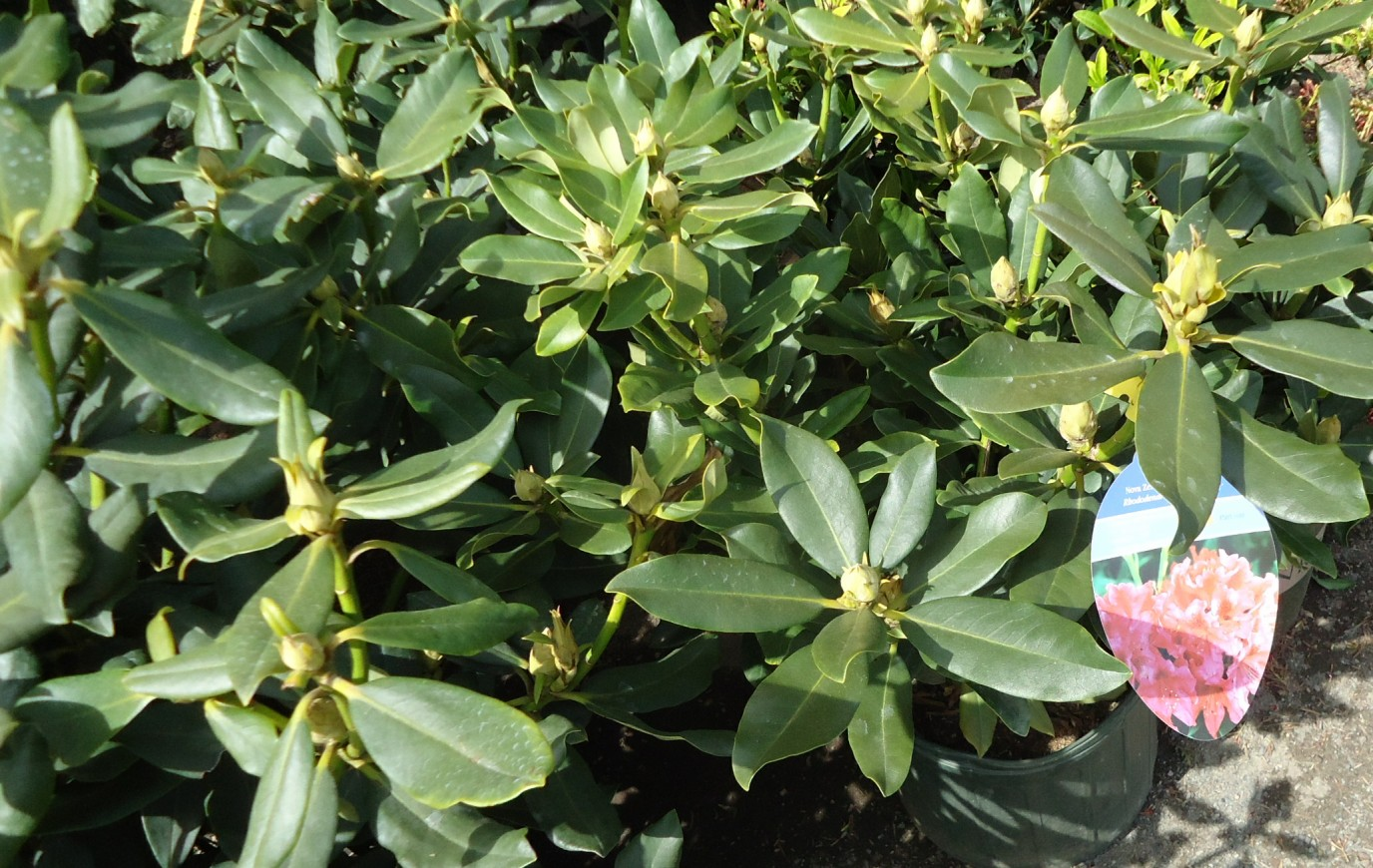 Nova Zembla Rhododendron plants in a nursery in Cranford, New Jersey on April 14, 2012 (correct date).